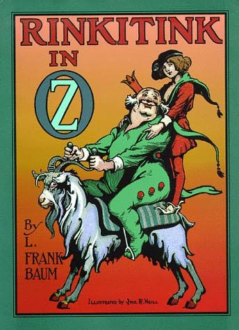 The original 1916 cover to "Rinkitink in Oz," by artist John R. Neill. Now out of copyright.